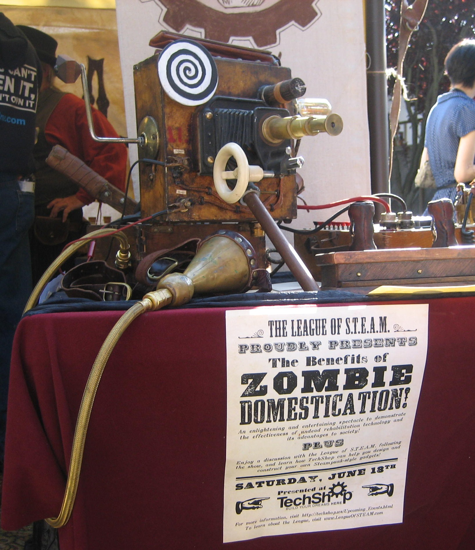 Notice for The League of S.T.E.A.M. presentation of "The Benefits of Zombie Domestication" at the 2011 San Mateo Maker Faire, in the Steampunk area.